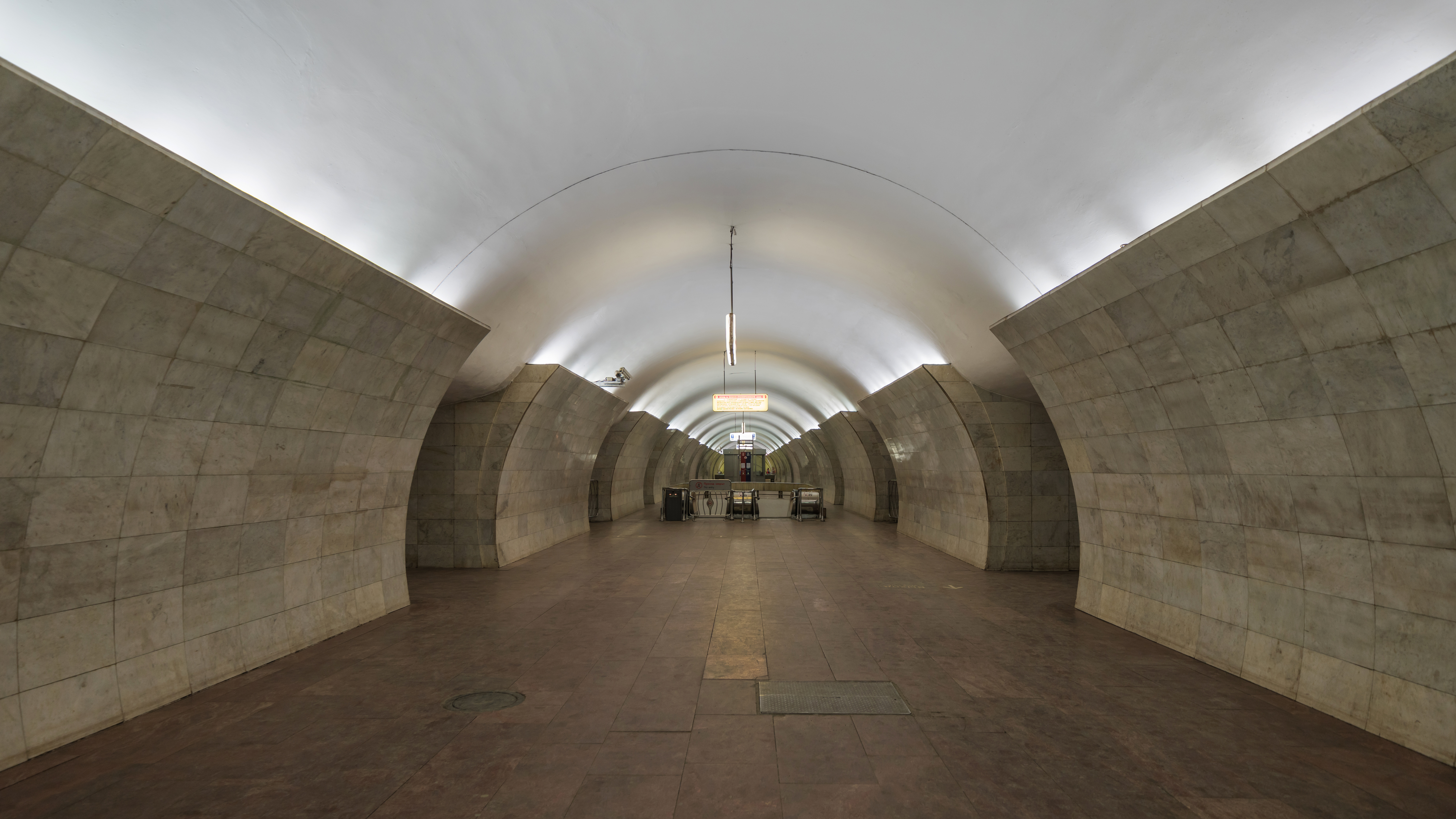 Tverskaya metro station in Moscow